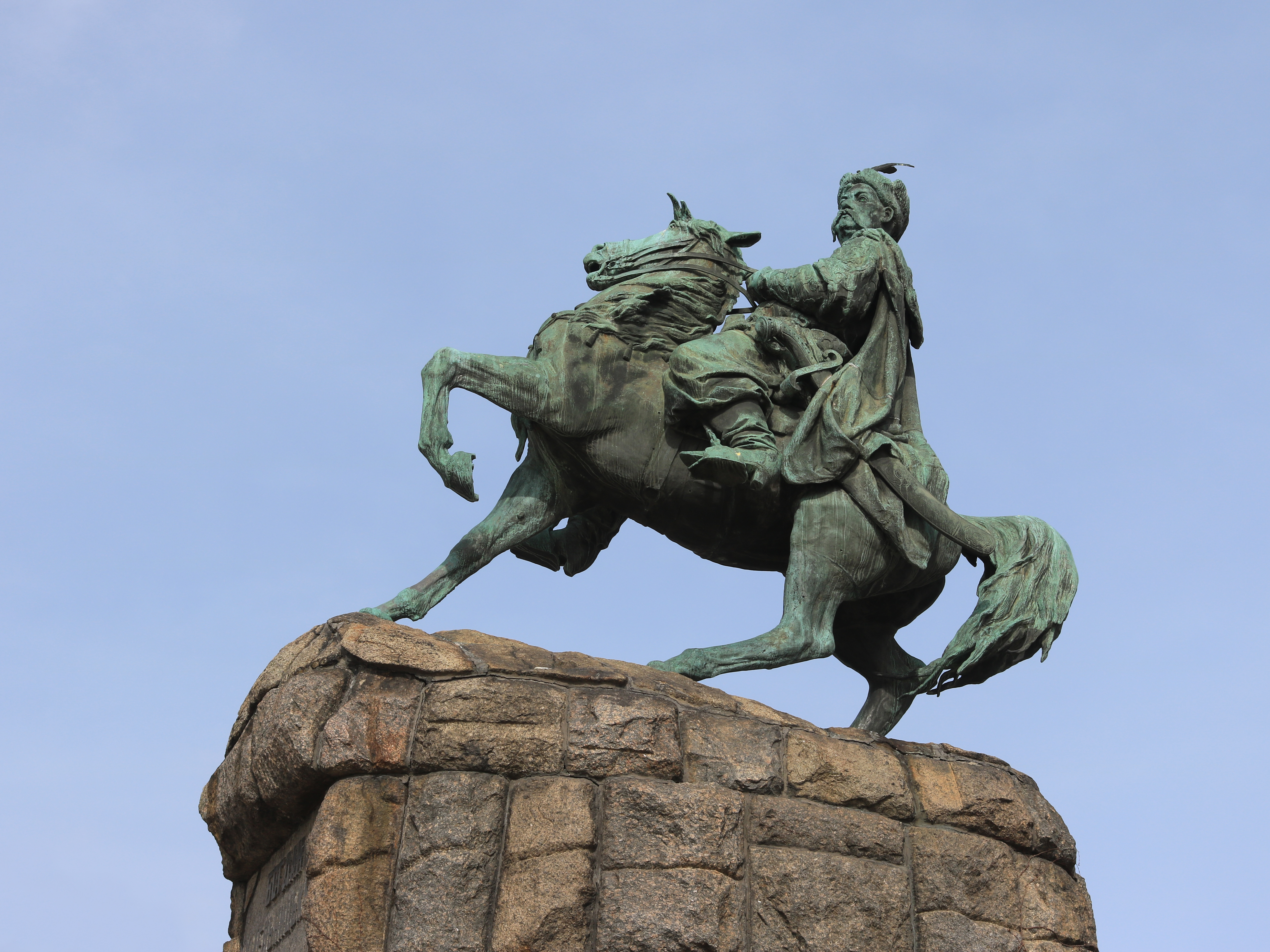 The Bohdan Khmelnytsky Monument in Kiev. This monument created by Mikhail Mikeshin in 1888.